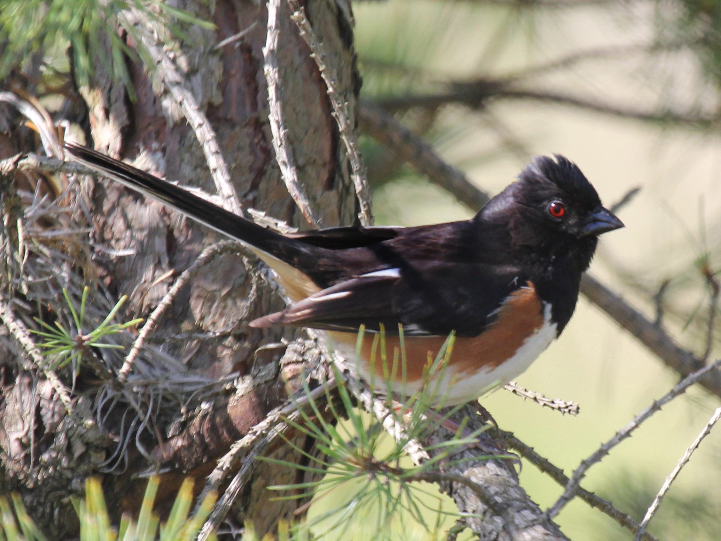 Eastern Towhee (Pipilo erythrophthalmus) at Kennebuck Plains in Kennebuck, Maine